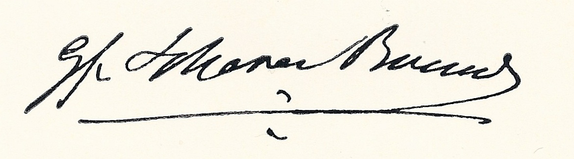 Signature of Theodor Scherer-Boccard (1816-1885): Gf. Scherer-Boccard ("Gf." = Graf, meaning: Count).